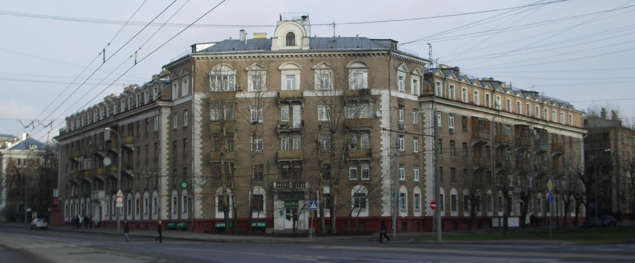 Novopeschanaya street, 11 (Moscow)